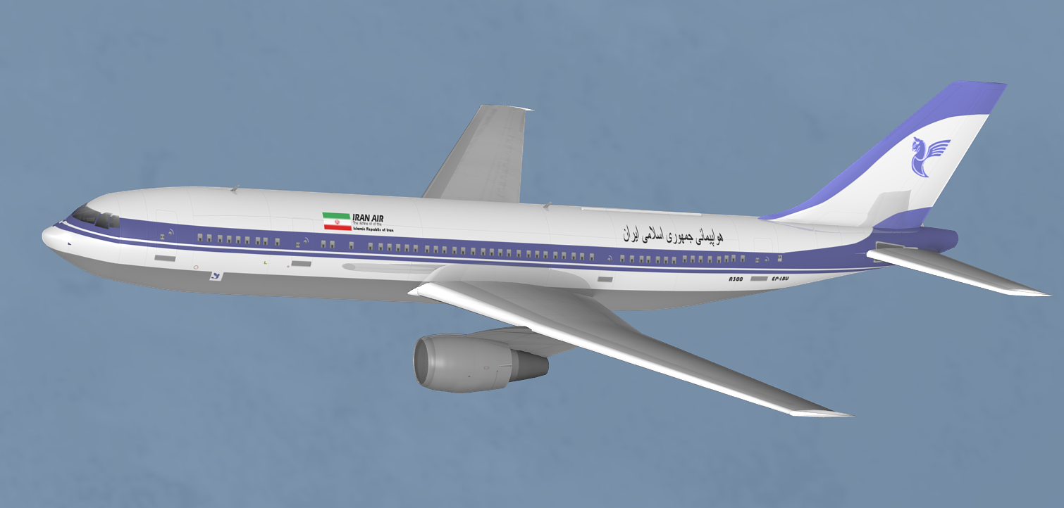 Iran Air Flight 655, an A300, which was hit by a missile from USS Vincennes on July 3, 1988.